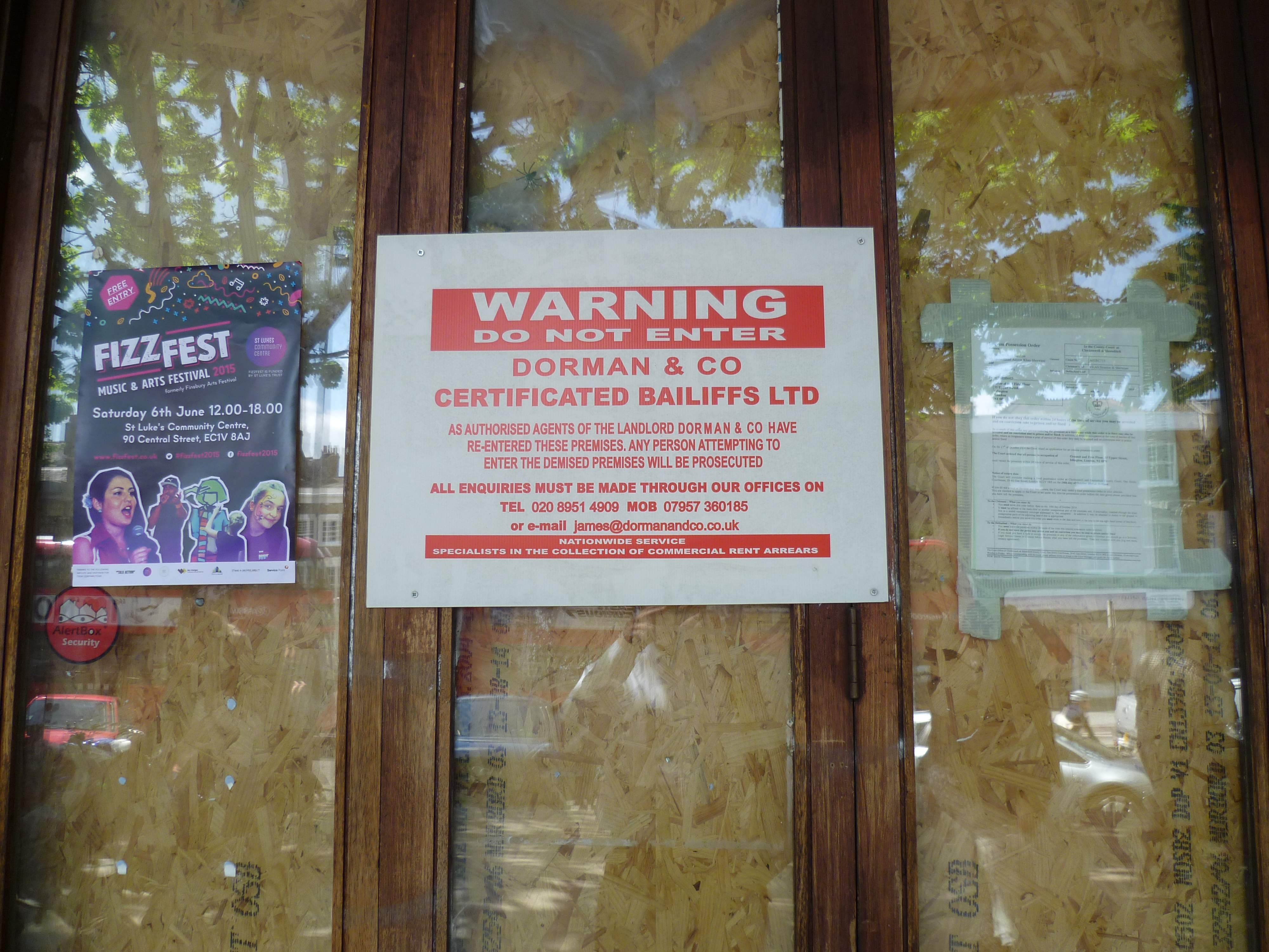 Warning do not enter certificated bailiffs London